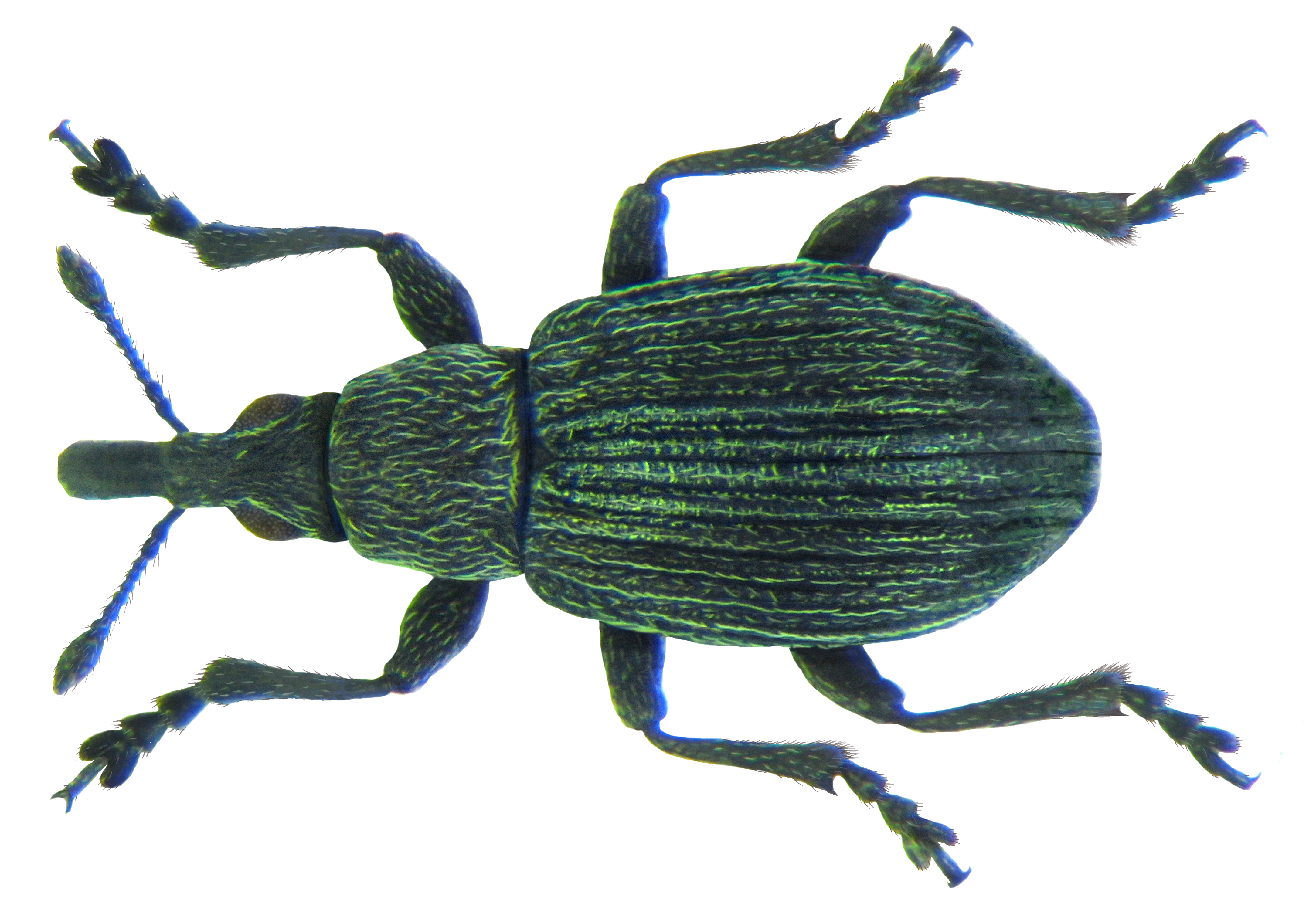 Family: Apionidae Size: 1,8-2,3 mm Origin: front of asia, europe and northwest africa Ecology: development in Hypericum-species Location: England, Essex, Beckton leg.det. P.J.Hodge, 8.VI.2008 Coll. Museum Oxford Photo: U.Schmidt, 2012